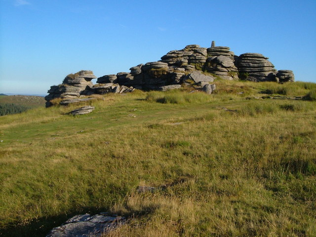 Bellever Tor. This is the main eastern mass of the tor, which has splendid views in all directions and is an easy climb only about a kilometre from two car parks. On the left is a glimpse of Laughter Tor to the southeast.